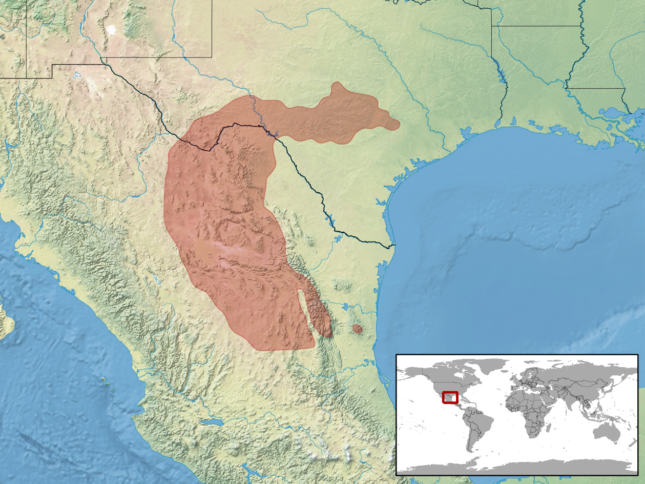 geographic distribution of Gerrhonotus infernalis (Native: Mexico; United States)